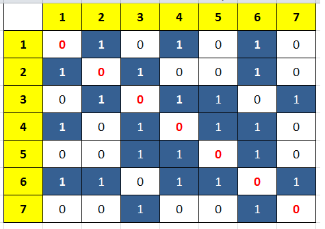 Ma trận kề đồ thi G